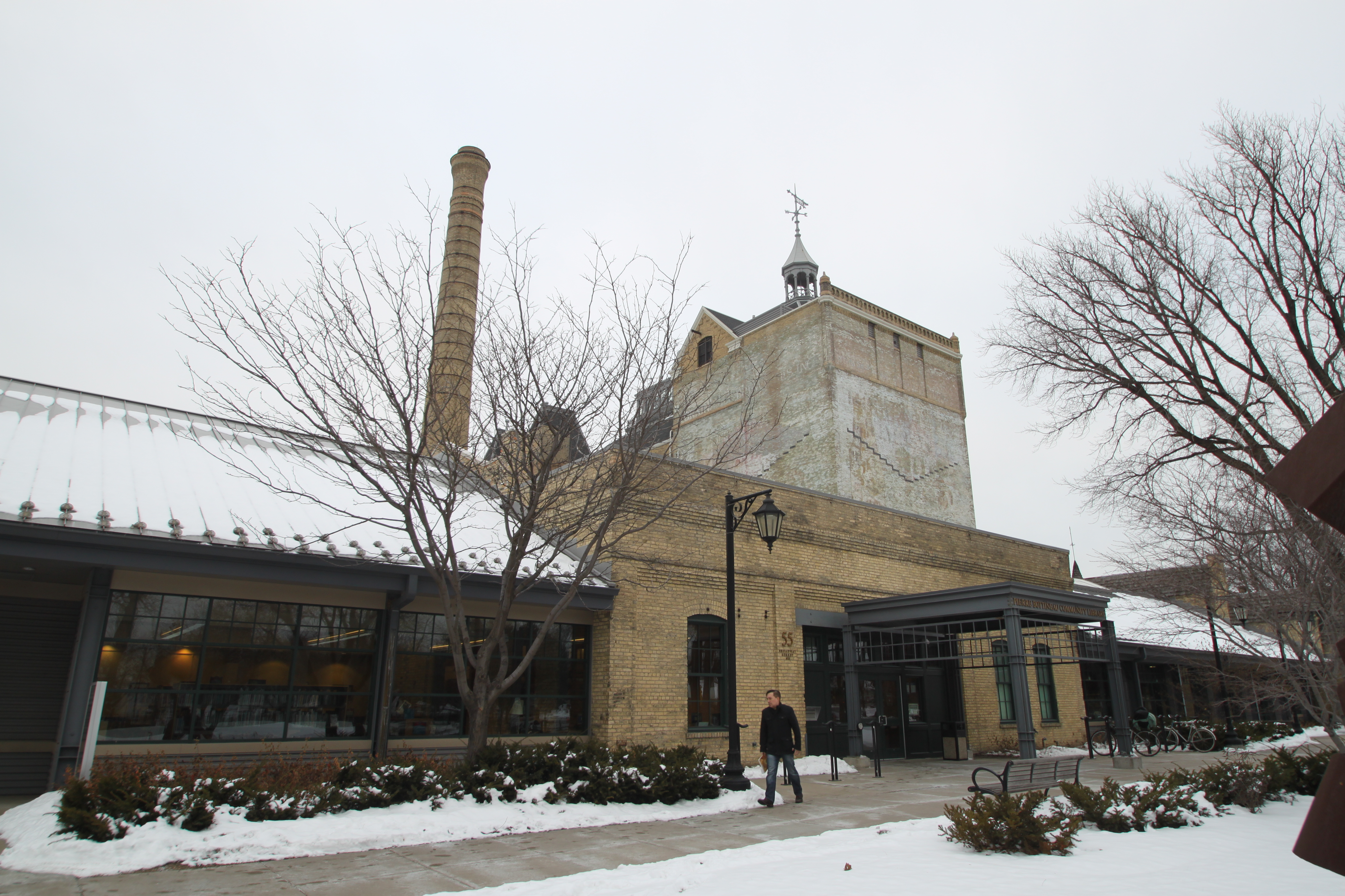 Pierre Bottineau Library in Minneapolis.